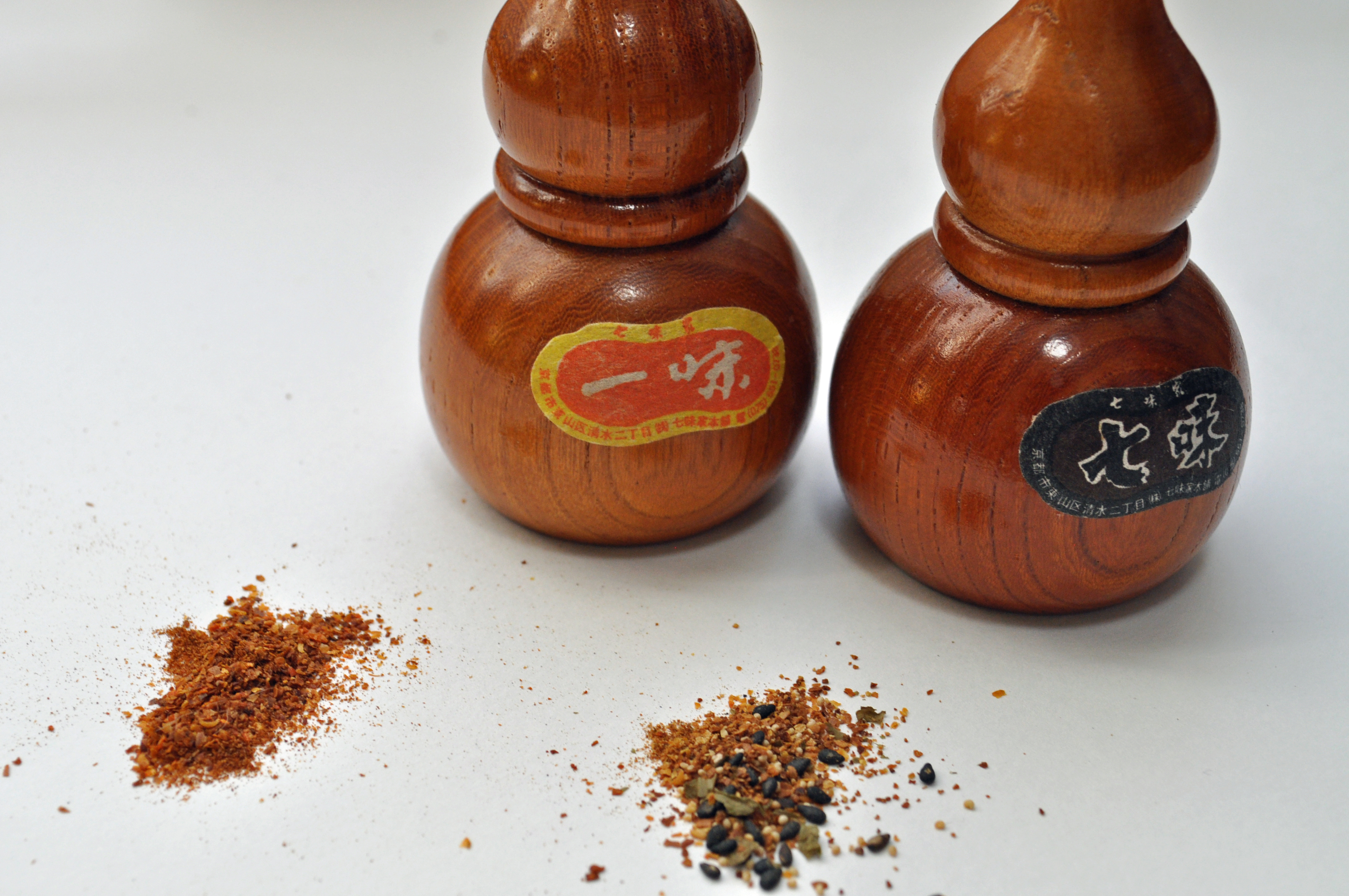 Shichimi tōgarashi and Ichimi tōgarashi